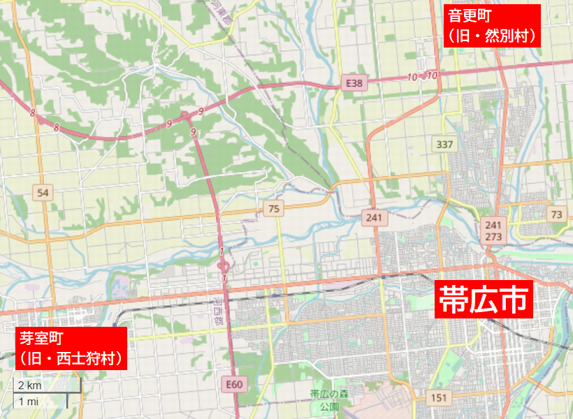 Map of Obihiro, Memuro and Otofuke